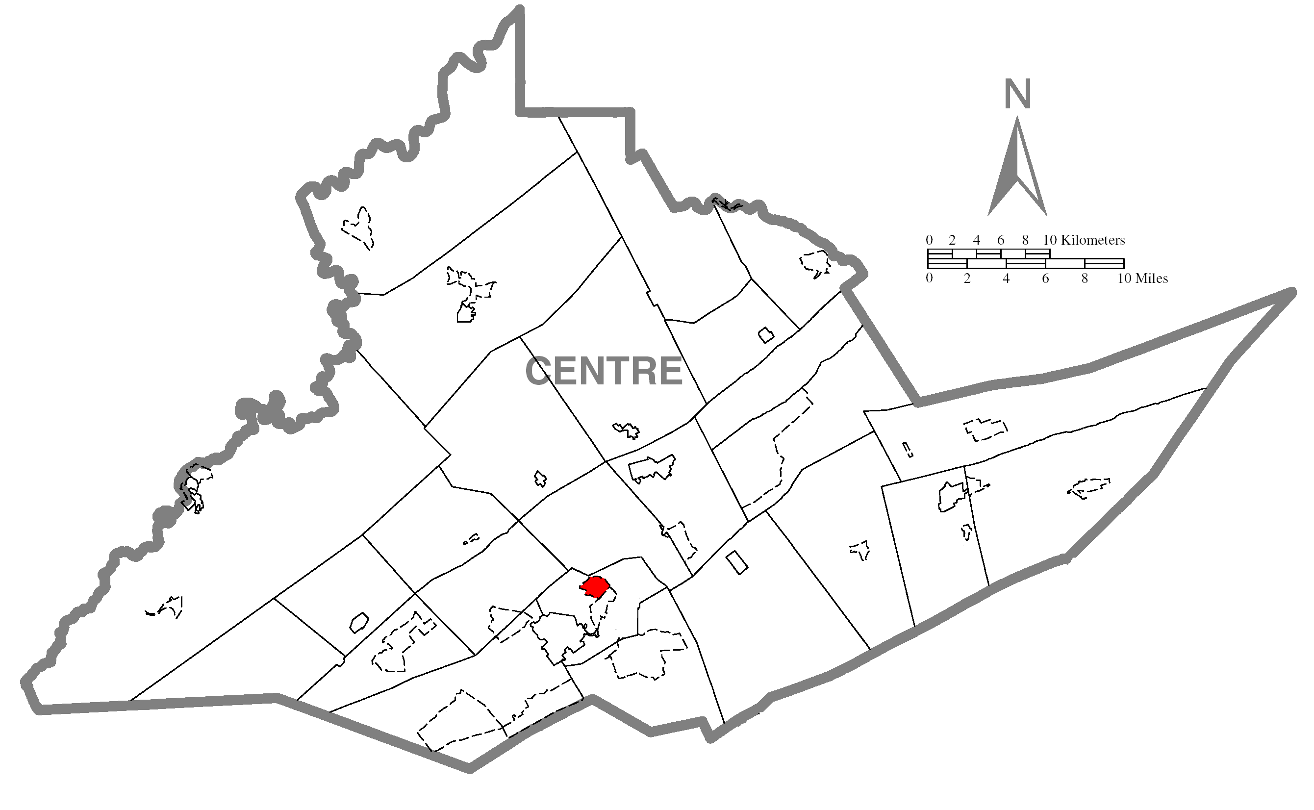 A map of Centre County showing Houserville, Pennsylvania (alternate) highlighted on the map.